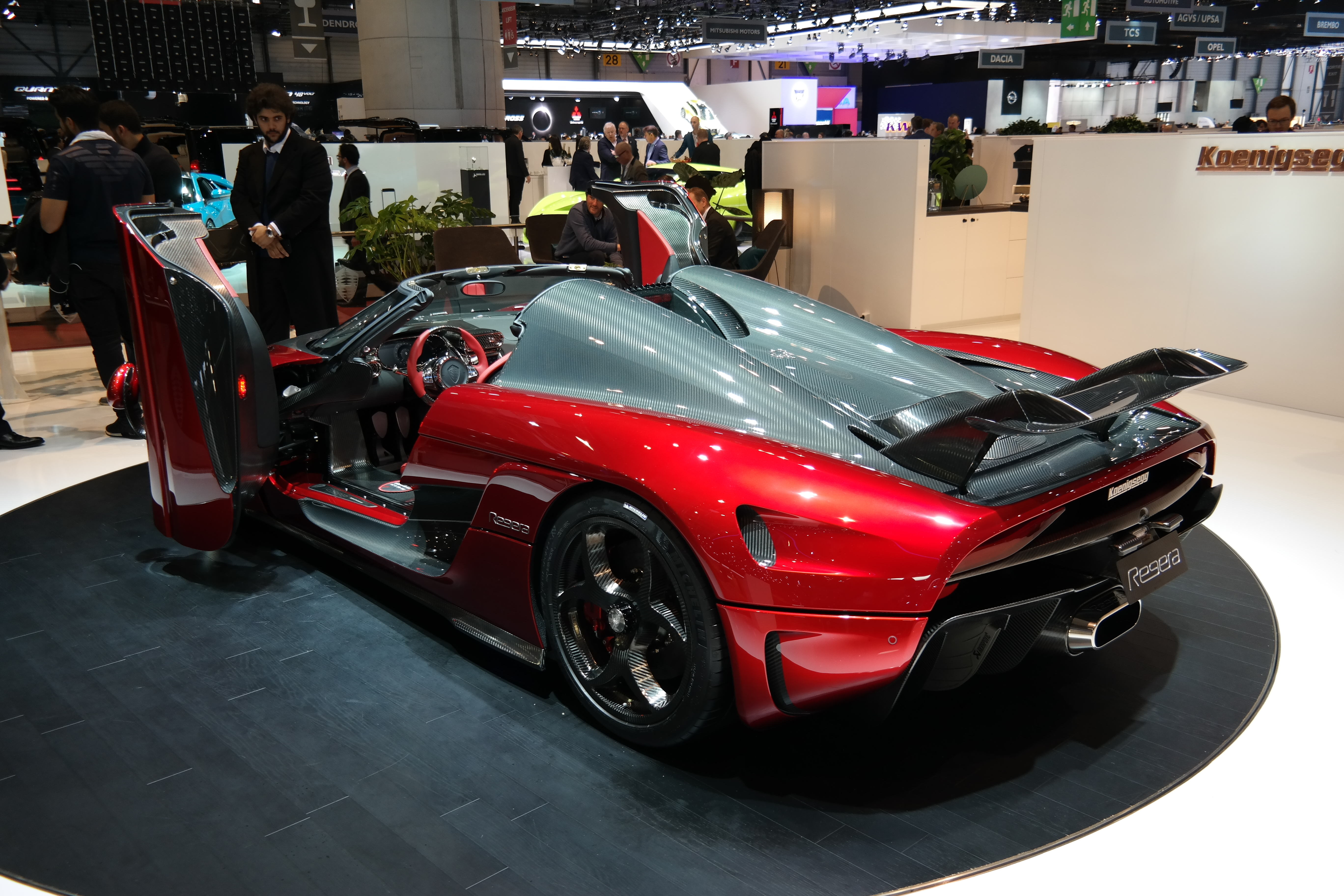 Geneva Motor Show 2017 (photo taken on the first press day)